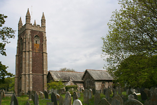 Maker Church The church is dedicated to St Mary and St Julian.